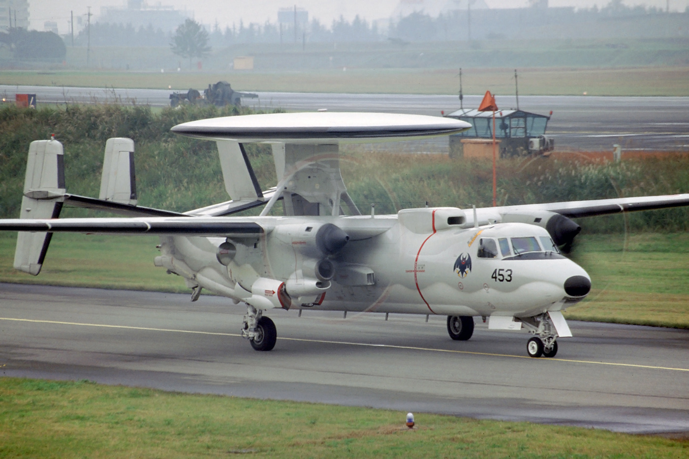 Iruma, 30 Ocotber 1994. On this rainy day four (4!) Hawkeyes taxied by and took off. The JASDF celebrated its 40th Anniversary with a very large formation flight over Tokyo. Except that... it was all cancelled due to the bad weather. For this event the E-2s from Misawa were based at Iruma. They took off, but only for their flight back to the north.